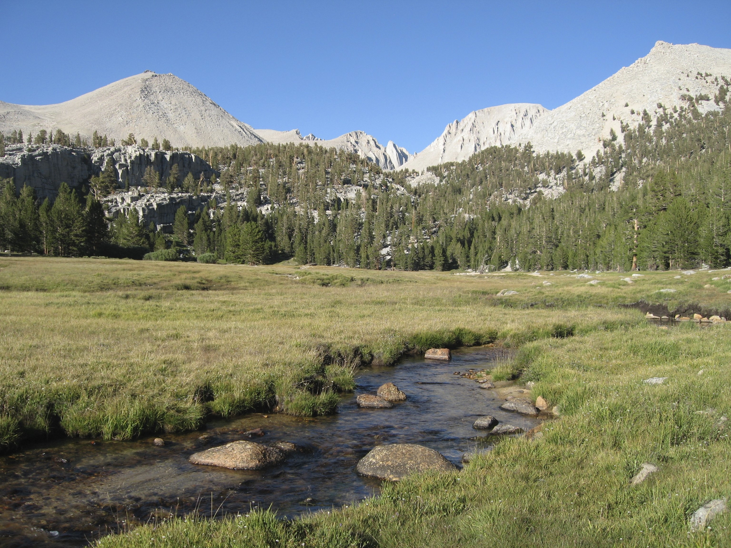 Crabtree Meadows. Looking east toward the Sierra Crest.